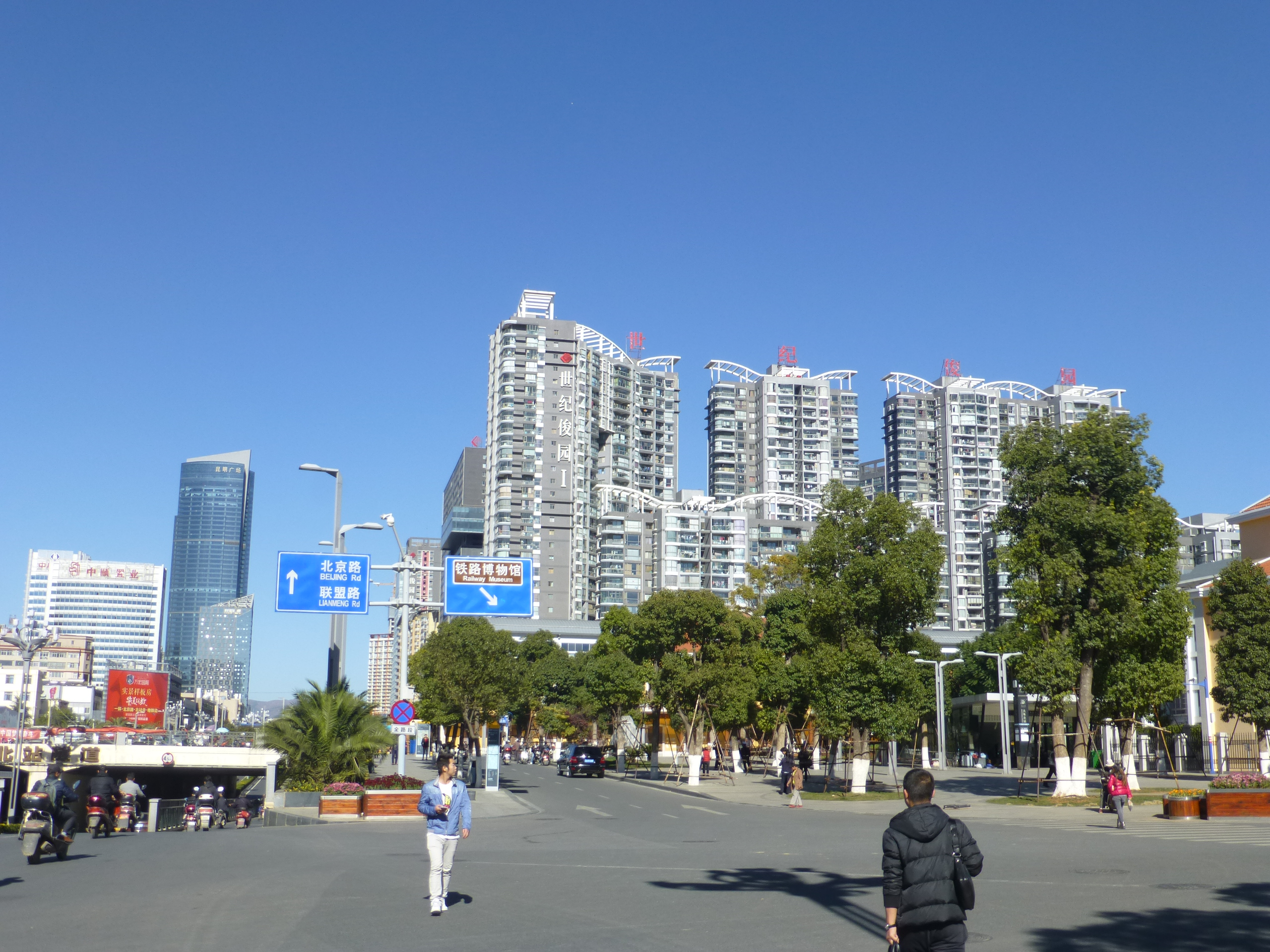 The square outside of Kunming North Railway Station (the Yunnan Railway Museum)